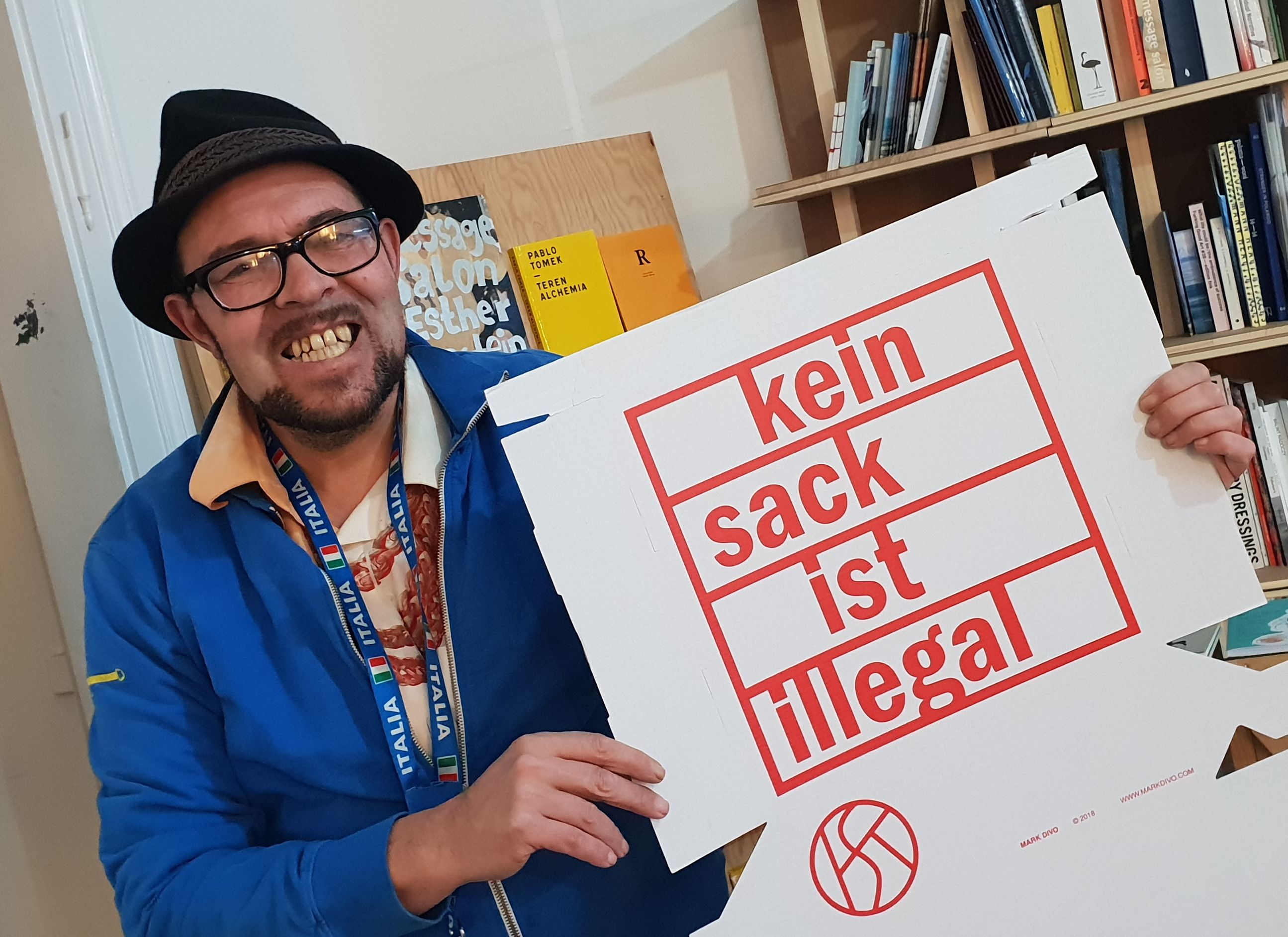 Artist Mark Divo at the Off-Space "Material" in Zurich preparing for the opening of his show "Sack for life".